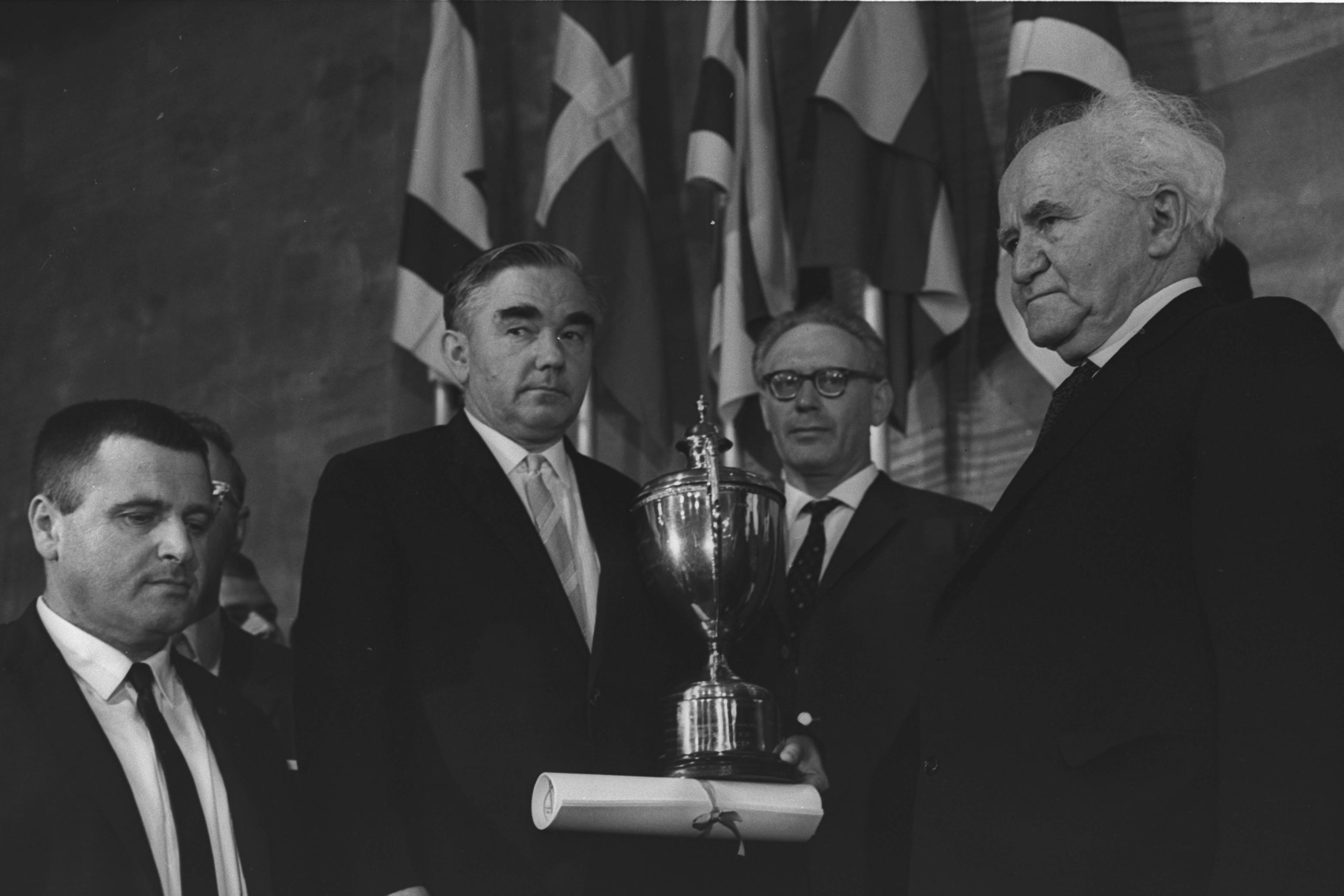 PRIME MINISTER DAVID BEN GURION PRESENTING THE TROPHY TO THE WINNER OF THE INTERNATIONAL CHESS OLYMPIAD, HELD AT TEL AVIV'S "SHERATON" HOTEL.